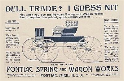 Pontiac Spring and Wagon Works was founded in 1899, and obviously looked for retailers in 1900.